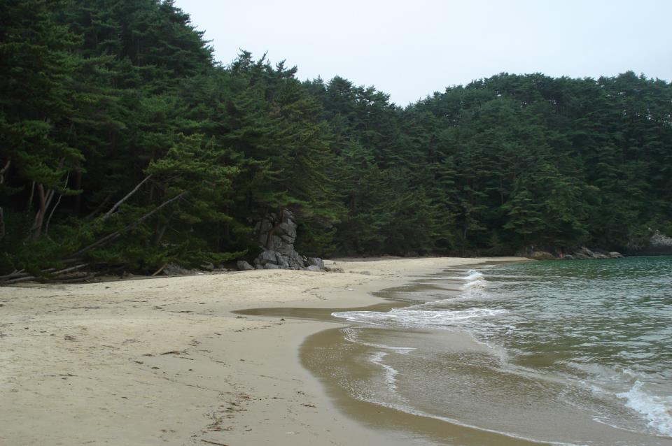 Kugunarihama (Kugunari Beach) on the Oshima island in Kesennuma City, Miyagi Prefecture, Japan